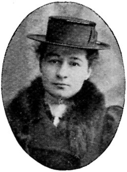 Image scanned from the book "Svenskt Porträttgalleri XX - Arkitekter, Bildhuggare, Målare m.fl. " ("Swedish Portrait Gallery XX - Architects, Sculptors, Painters, ") published 1901